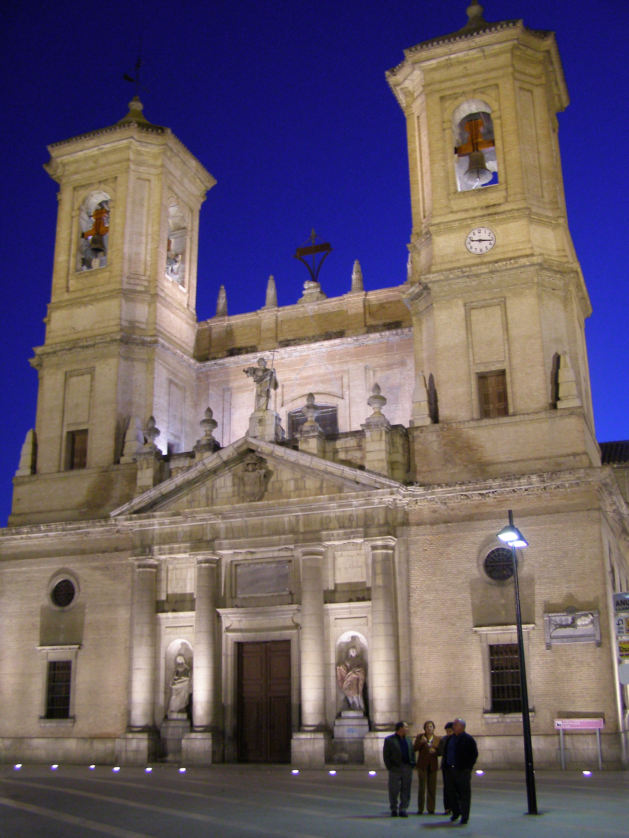 Church in Santa Fe, Granada, Spain.